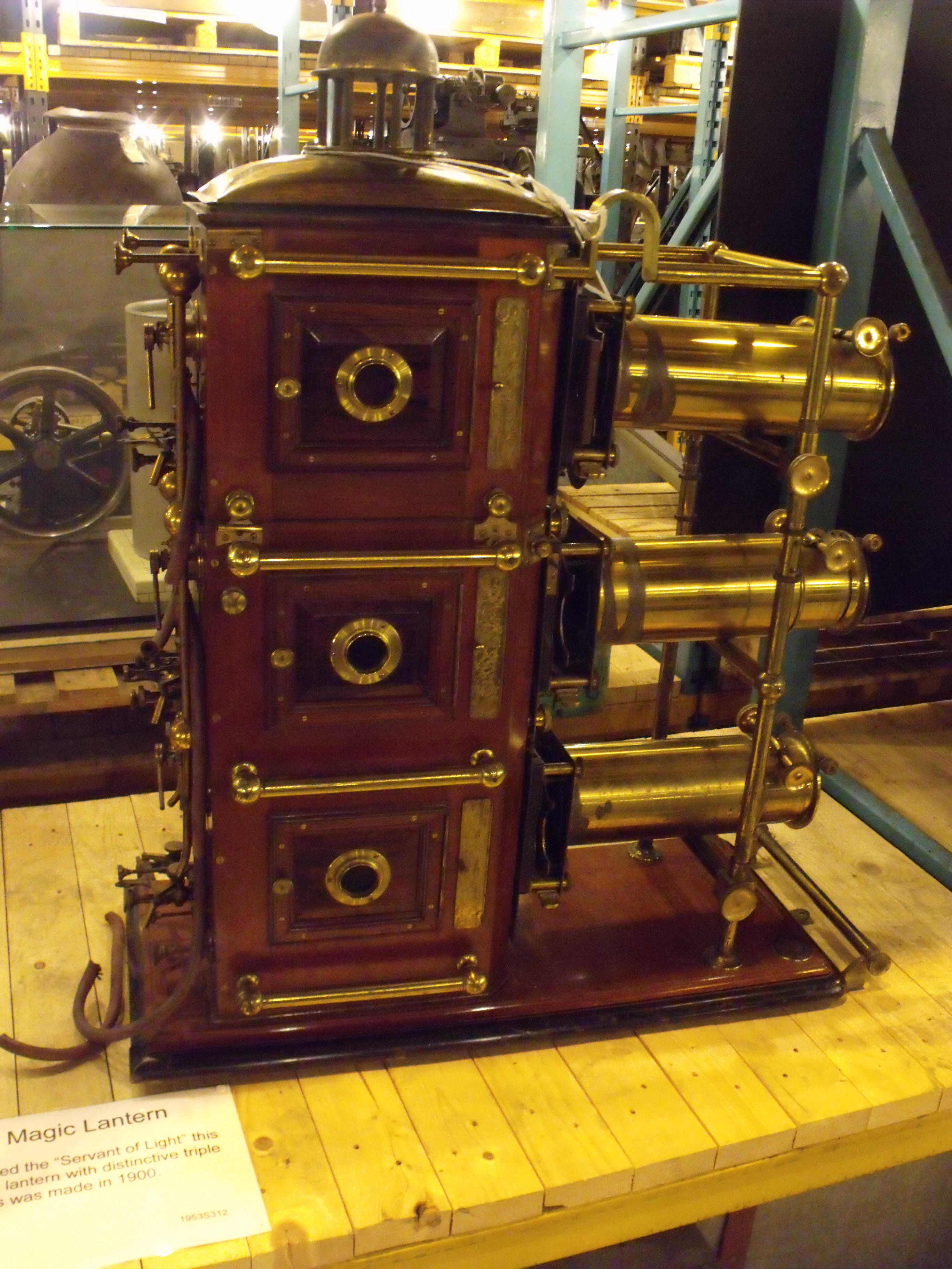 I went to the Open Day at the Museum Collections Centre - 25 Dollman Street on the 13th of May 2012. At the Dollman Street Stores they have objects that are not currently on display in the Birmingham Museum & Art Gallery or Think Tank. Some items used to be in the old Museum of Science & Industry on Newhall Street. In the warehouse at the Museum Collections Centre - 25 Dollman Street. Lots of large items in here. This is a Magic Lantern. Labelled the "Servant of Light" this magic lantern with distinctive triple lenses was made in 1900.